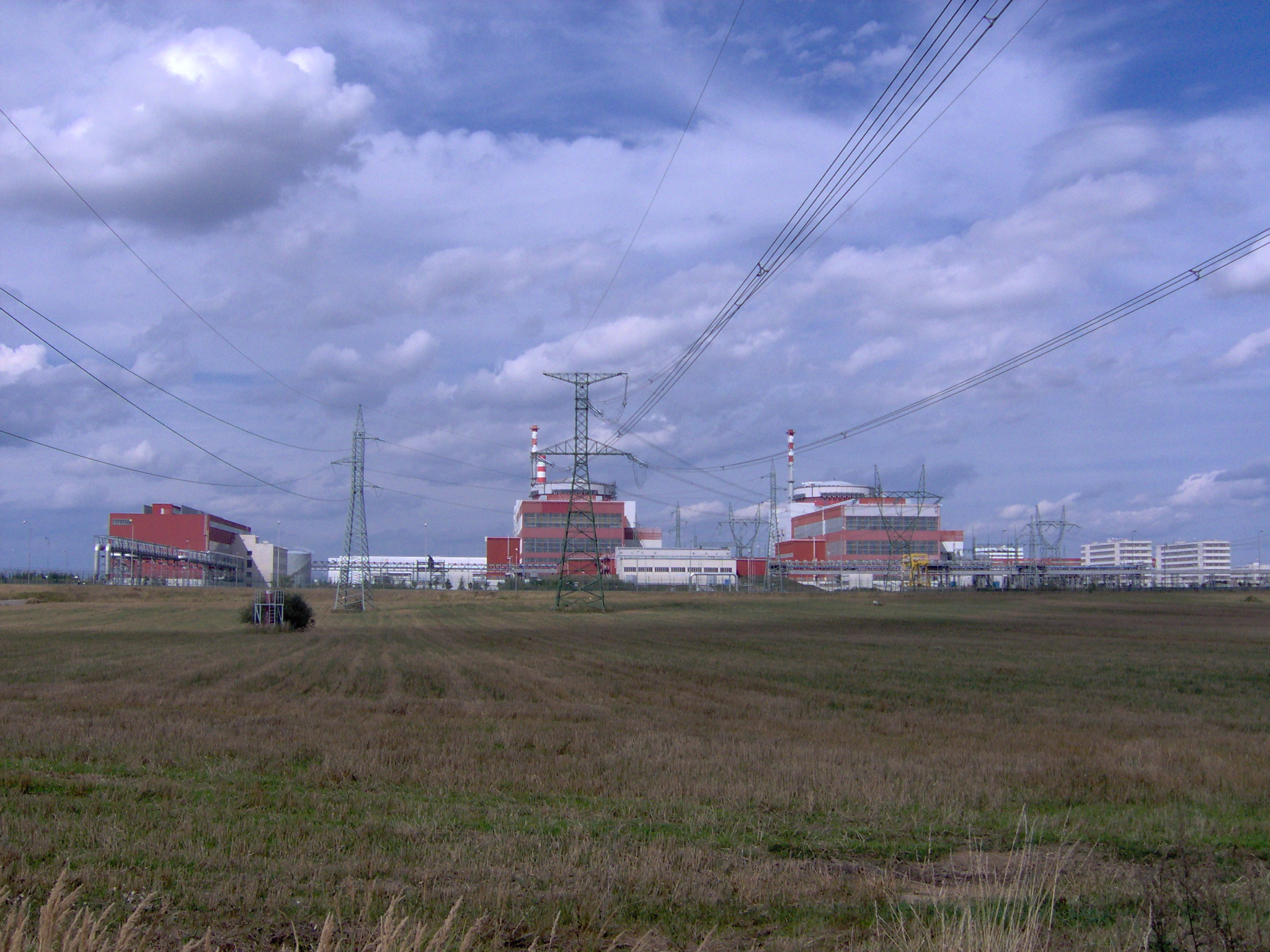 View of buildings of Temelín Nuclear Power Station; 110 kV and 400 kV power lines to Kočín substation.